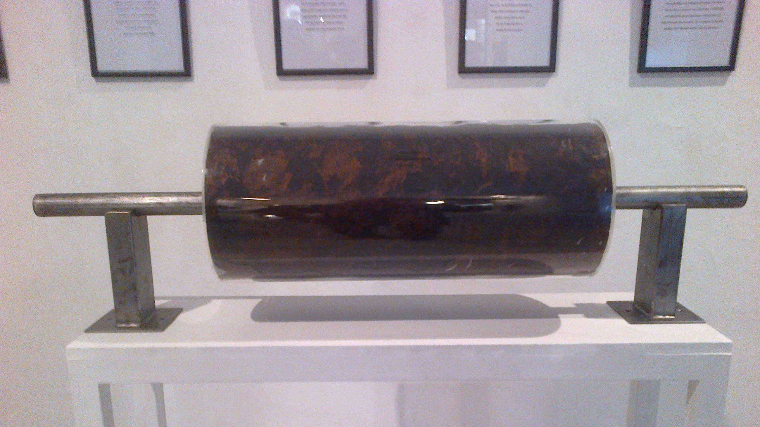 Photo by: Jovan Despotović. Recorded to show the author